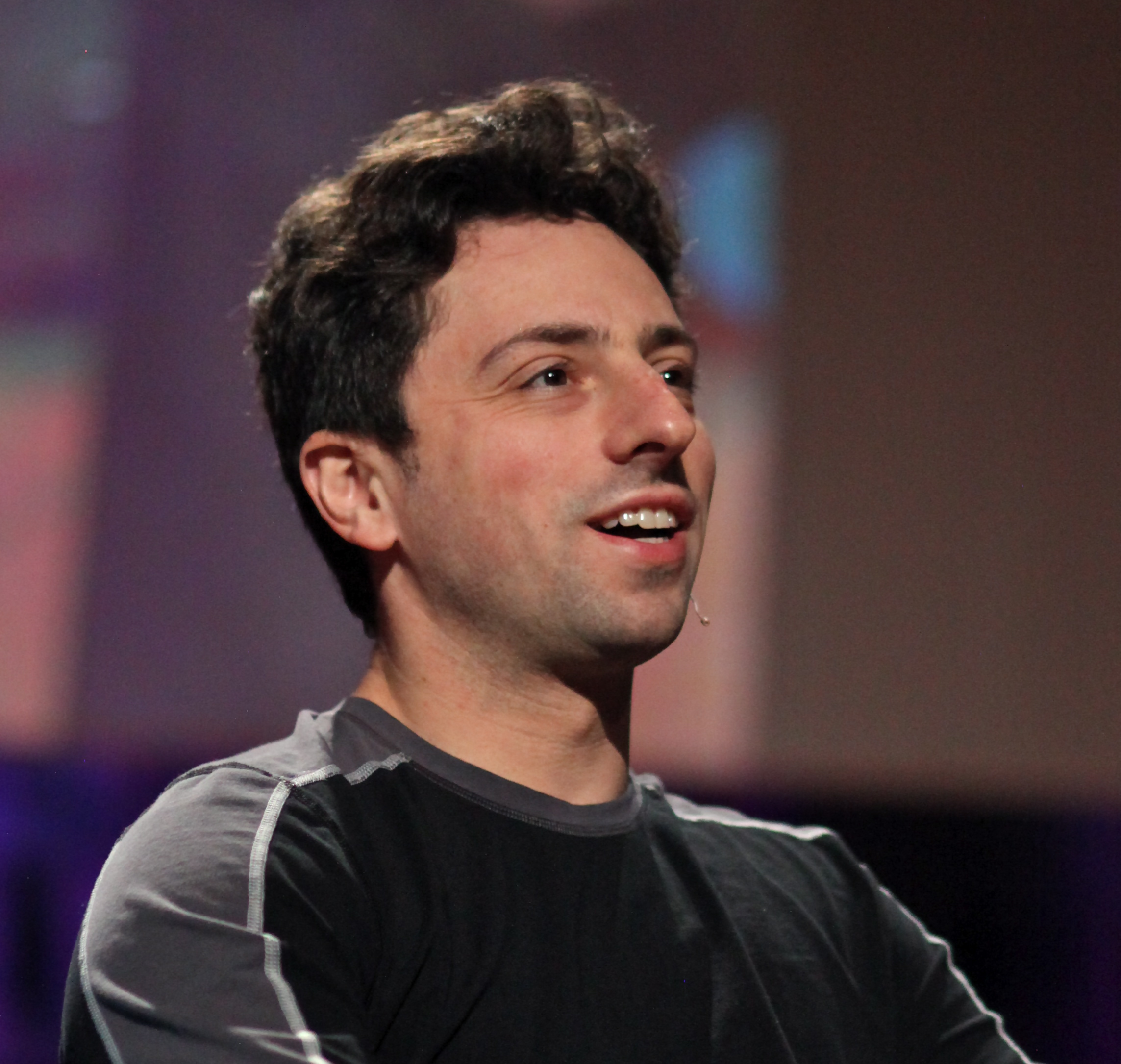 Sergey today: “I think a lot of people think I’m naive, and that may well be true, but I wouldn’t have started a search engine in 1998 if I wasn’t naive.” “I’m an optimist. I want to find a way to work within the Chinese system and provide more and better information. ...perhaps it won’t succeed immediately tomorrow but maybe in a year or two” ( more on China )